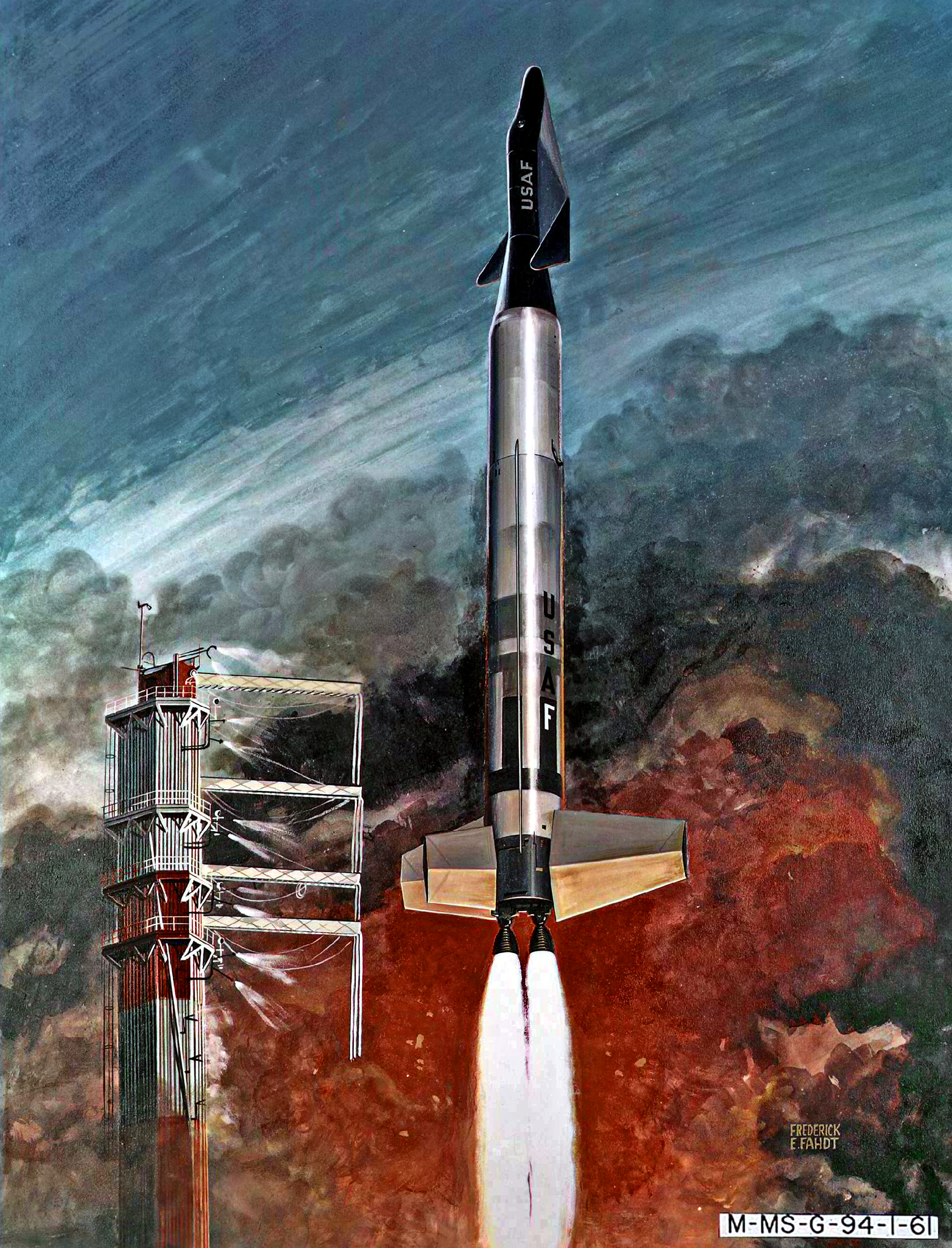 A Dyna-Soar (Dynamic Soaring) vehicle clears the launch tower atop an Air Force Titan II launch vehicle in this 1961 artist's concept. Originally conceived by the U.S. Air Force in 1957 as a marned, rocket-propelled glider in a delta-winged configuration, the Dyna-Soar was considered by Marshall Space Flight Center planners as an upper stage for the Saturn C-2 launch vehicle.